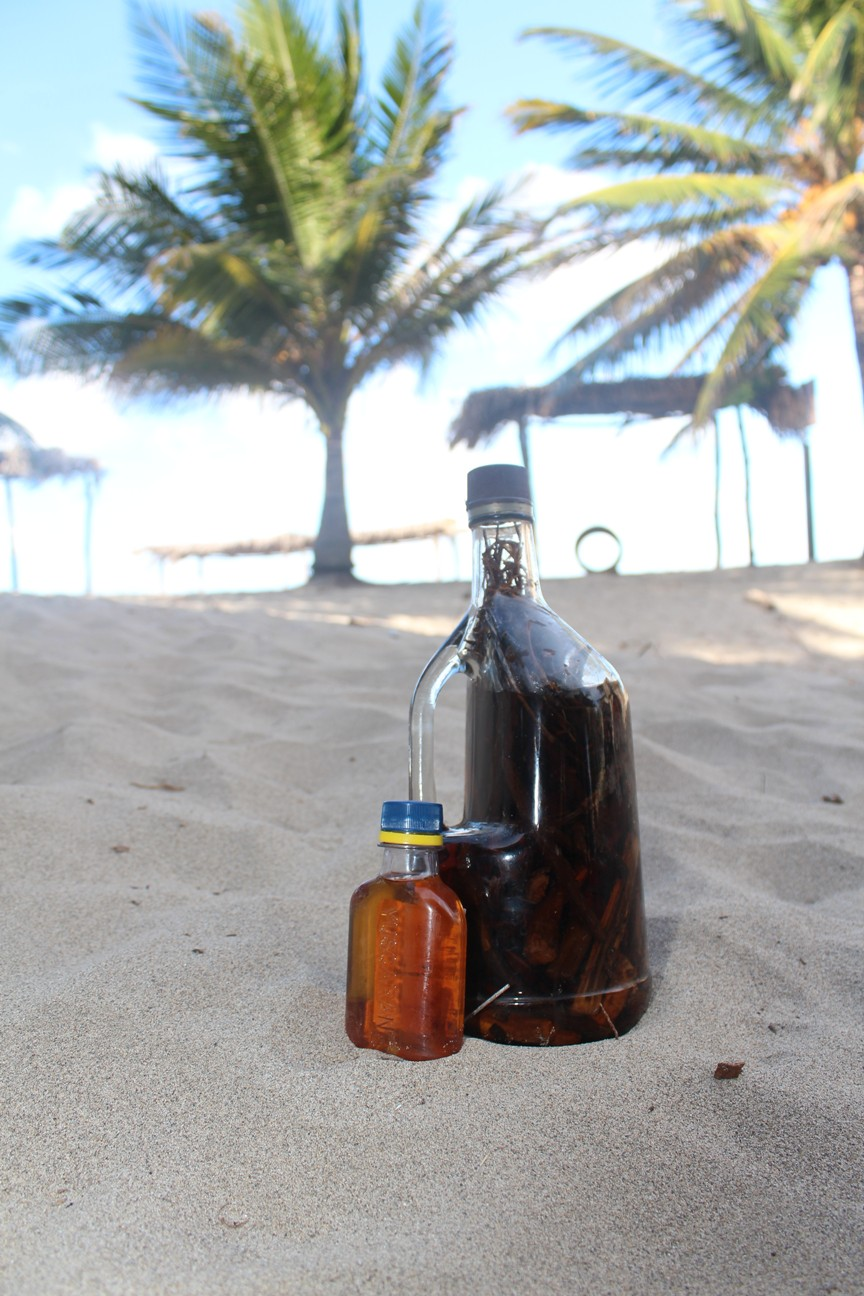 A bottle of gifiti.